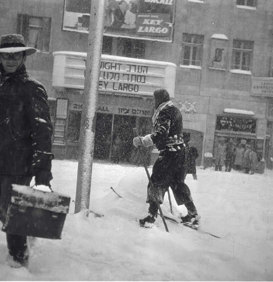 Snow in Zion Square.